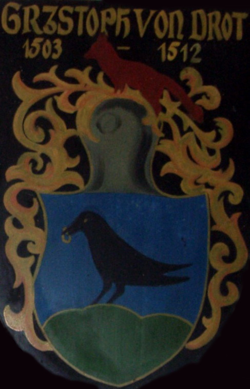 Coat of Arms of Christoph von Trotha on Berwartstein Castle